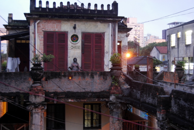 Vila Itororó, at Bela Vista, in São Paulo, SP, Brazil.